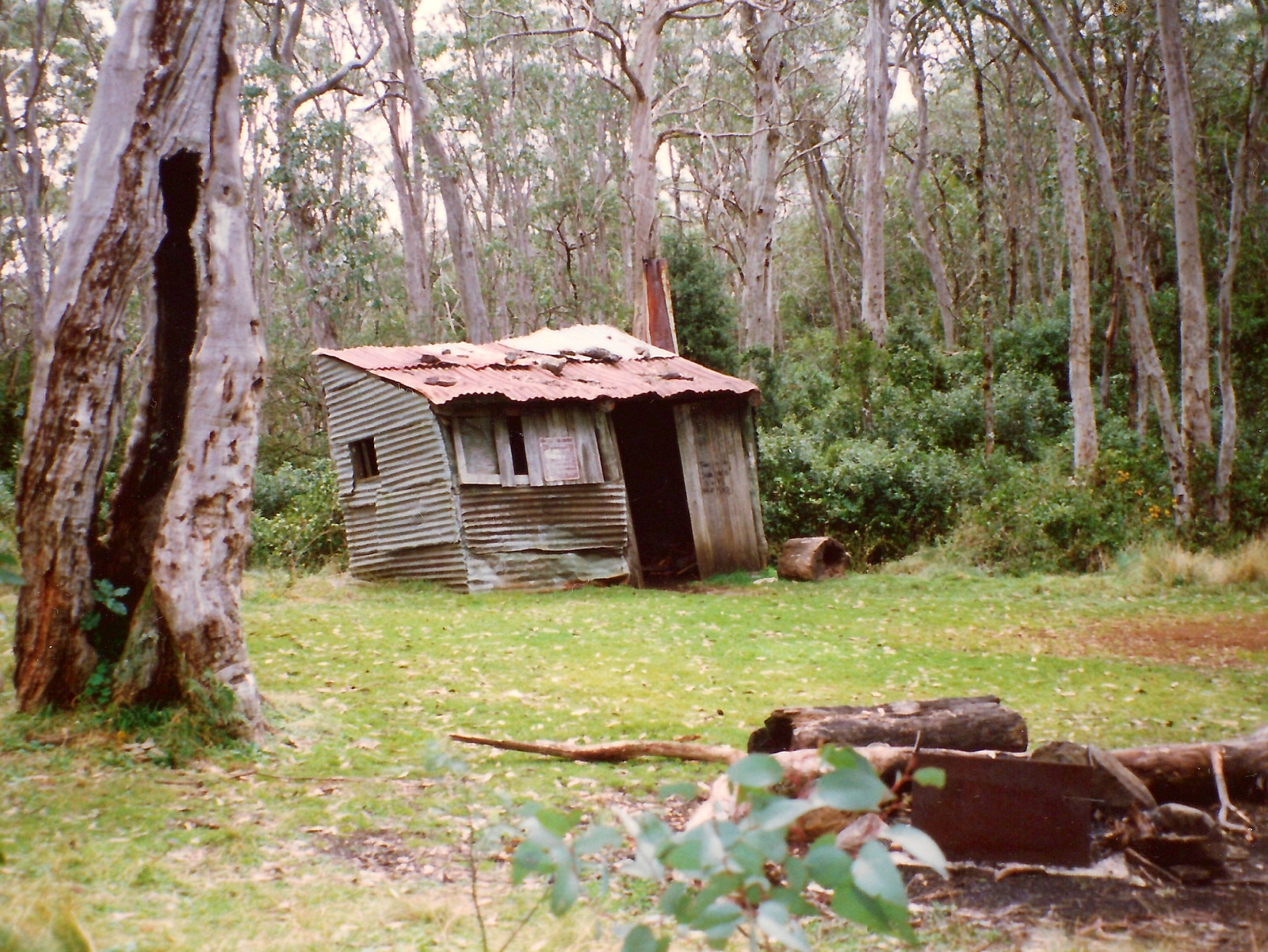 Careys Peak Snow Gums & Crooked Shed, Barrington Tops, NSW, Australia